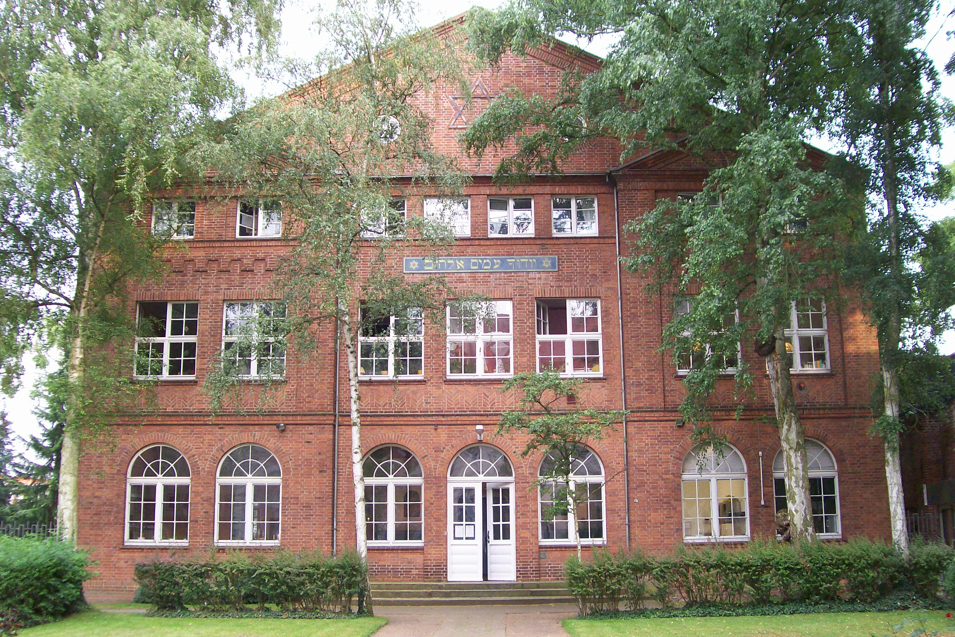 Synagogue in Lübeck, Germany, built in 1880